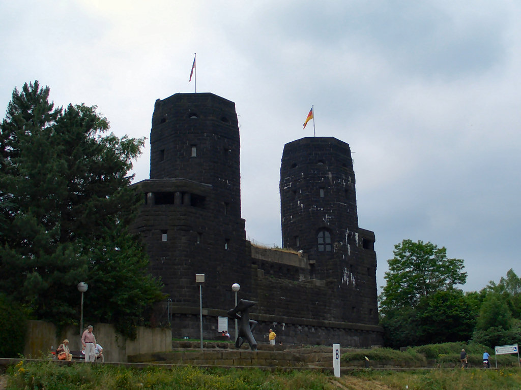 Ludendorff Bridge